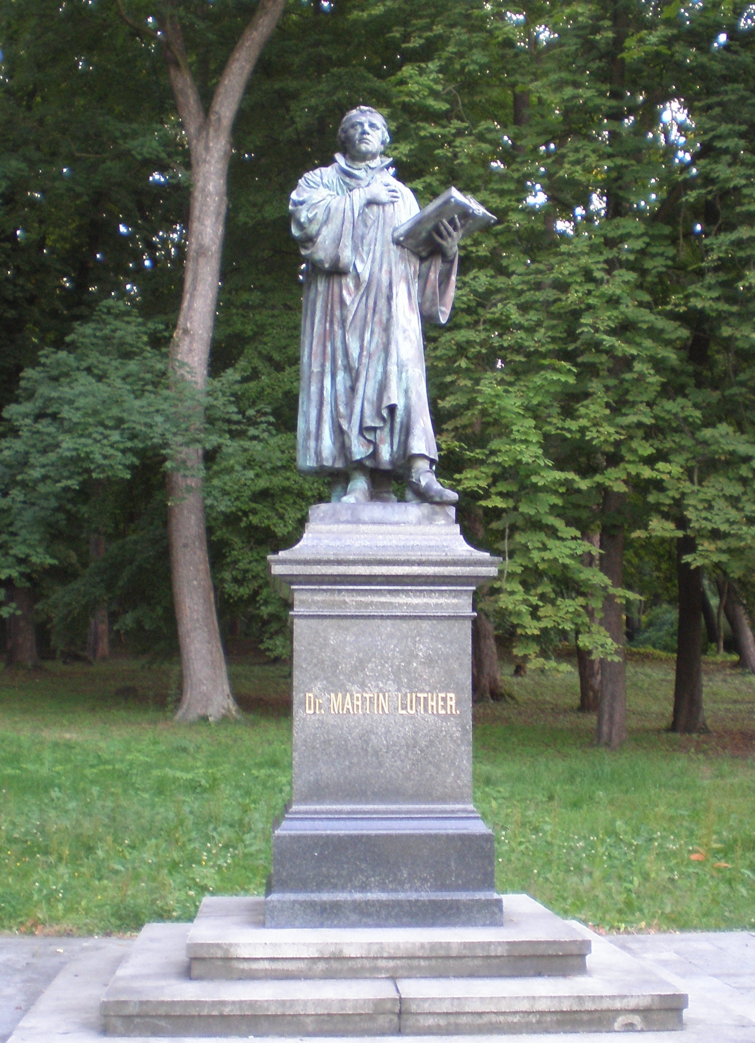 Dr.Martin Luther Memorial in Aš (After reconstruction- 2008)